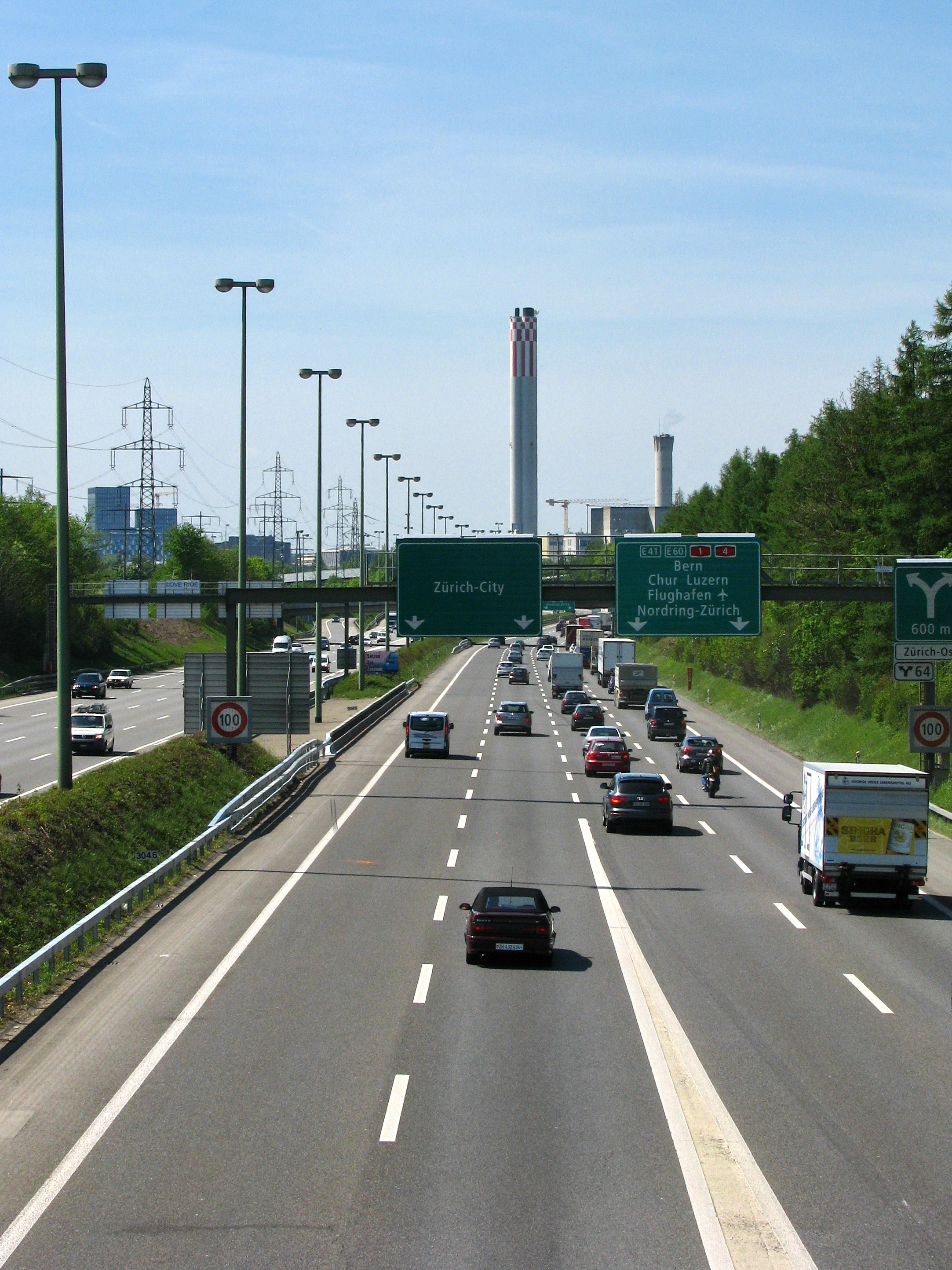 The power line Fällanden-Auwiesen and the A1 motorway in Wallisellen (Switzerland)